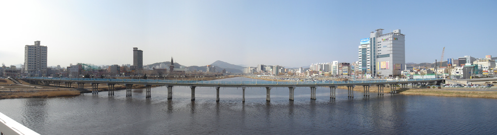 View of Taehwa River from foot bridge, Seoungundong, Ulsan